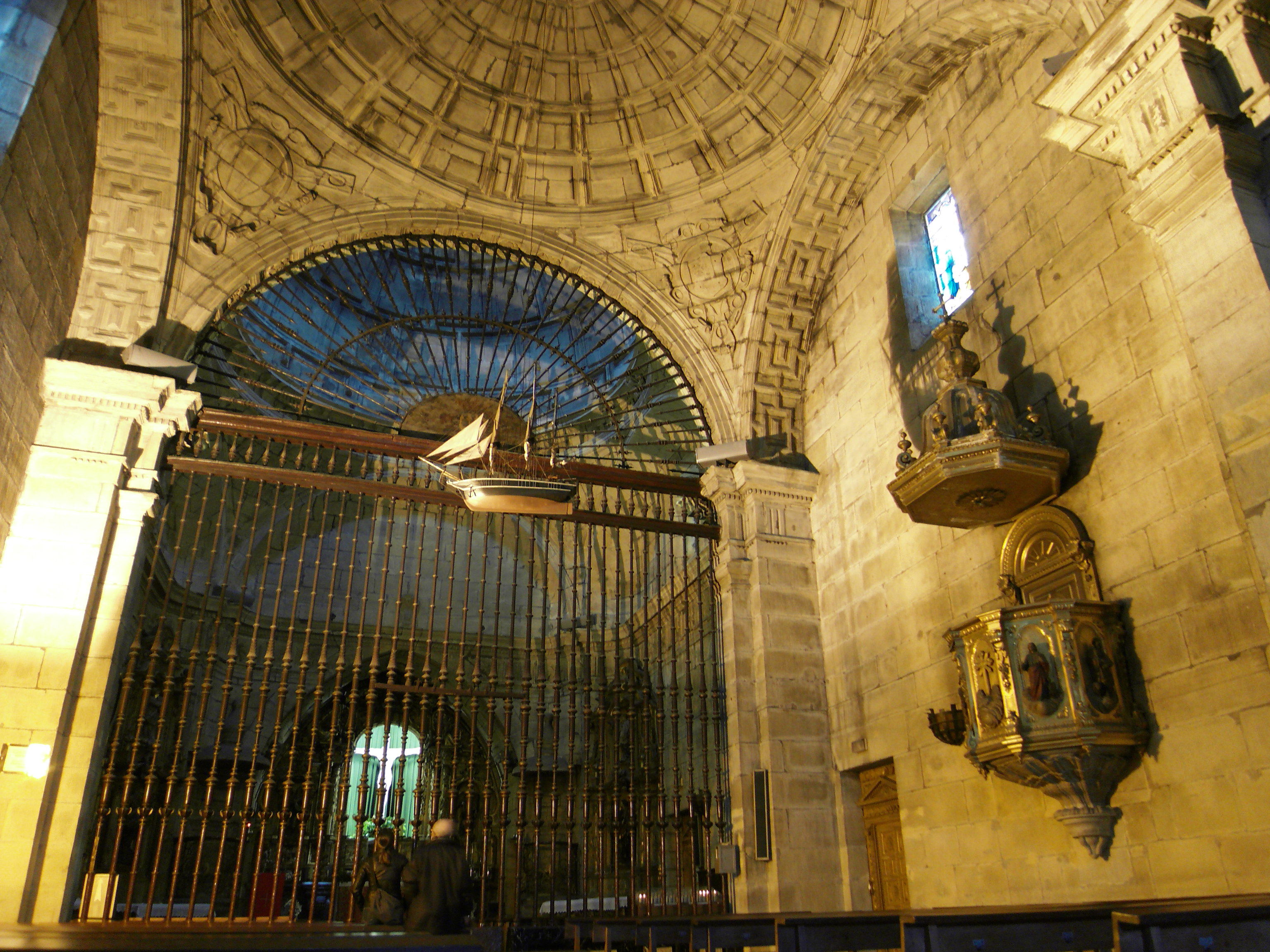 Interior of Saint Cross basilica (Lezo, Guipuscoa, Basque Country)